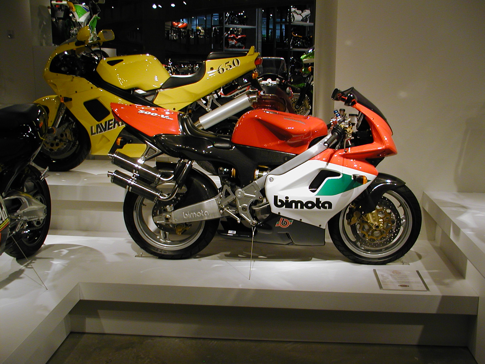 Bimota V-Due. 2 Cylinders in V. 500 cc.